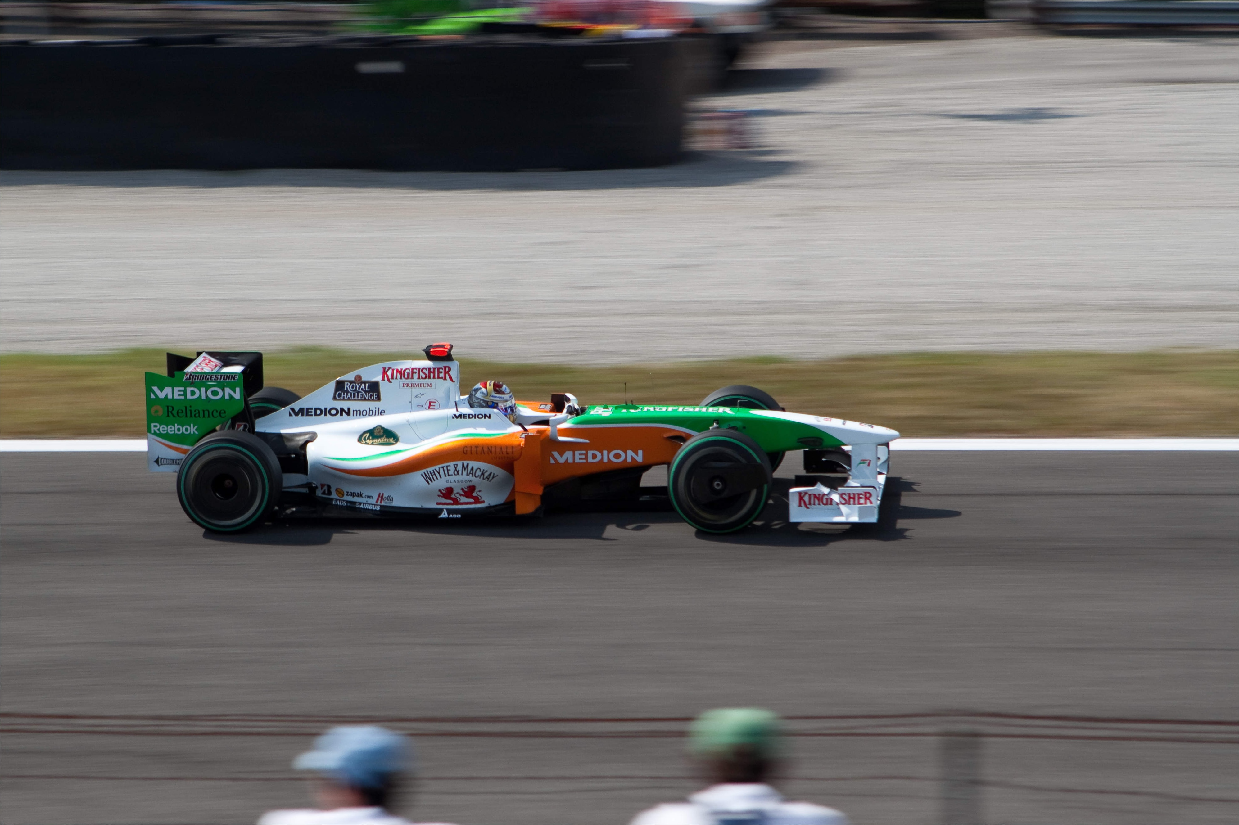 Adrian Sutil driving for Force India at the 2009 Italian Grand Prix.